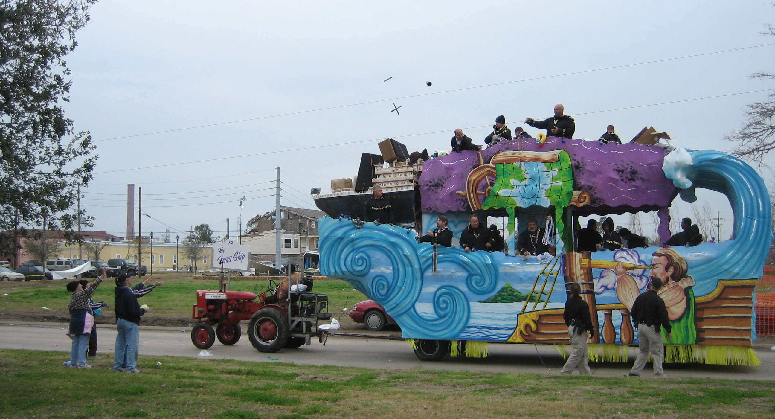 Chalmette, Louisiana. Float, Knights of Nemesis parade, 2006.